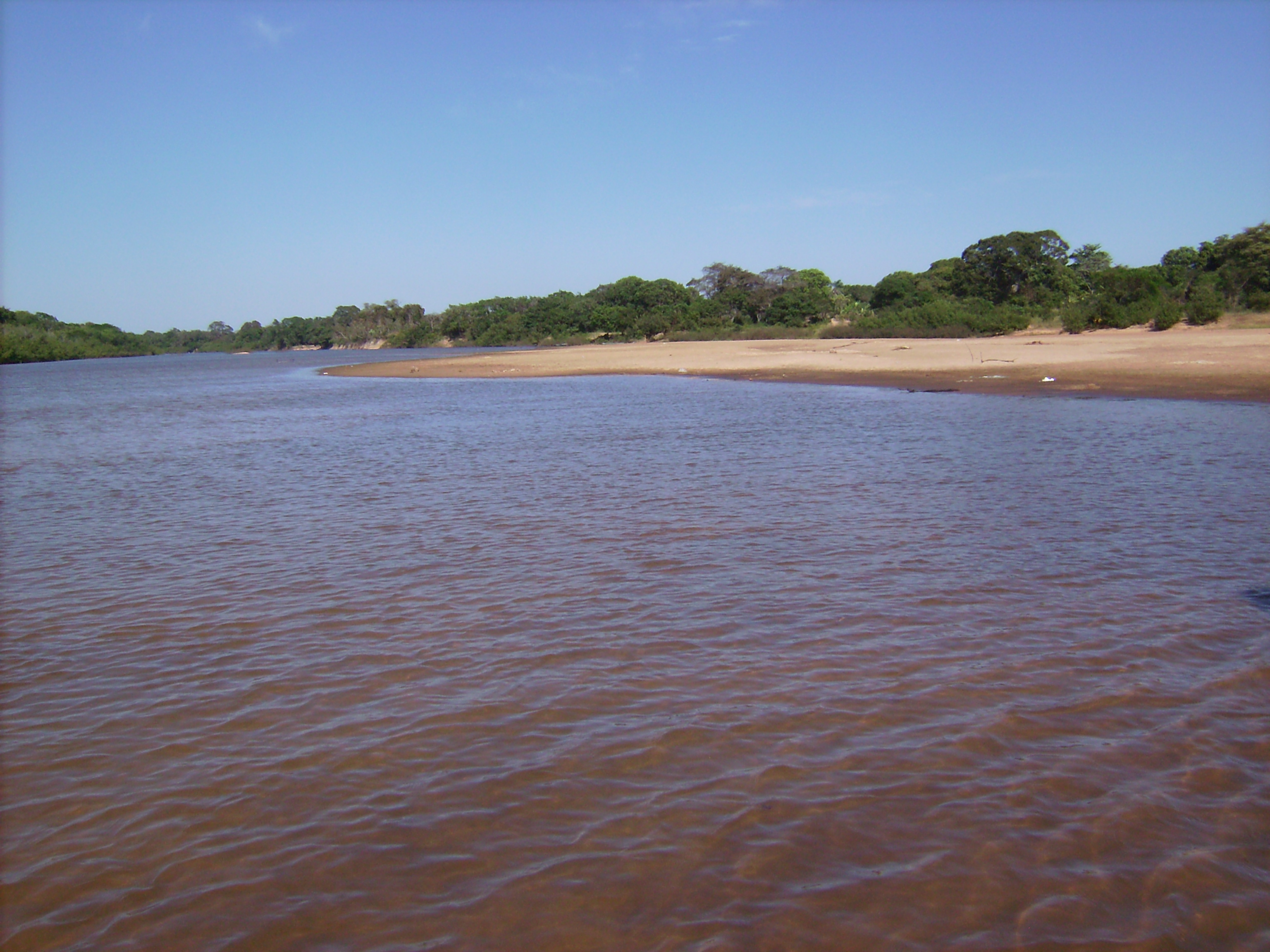 The Javaés River and the Bananal Island in the Txuiri indian village, located in the brazilian municipality of Formoso do Araguaia, Tocantins.